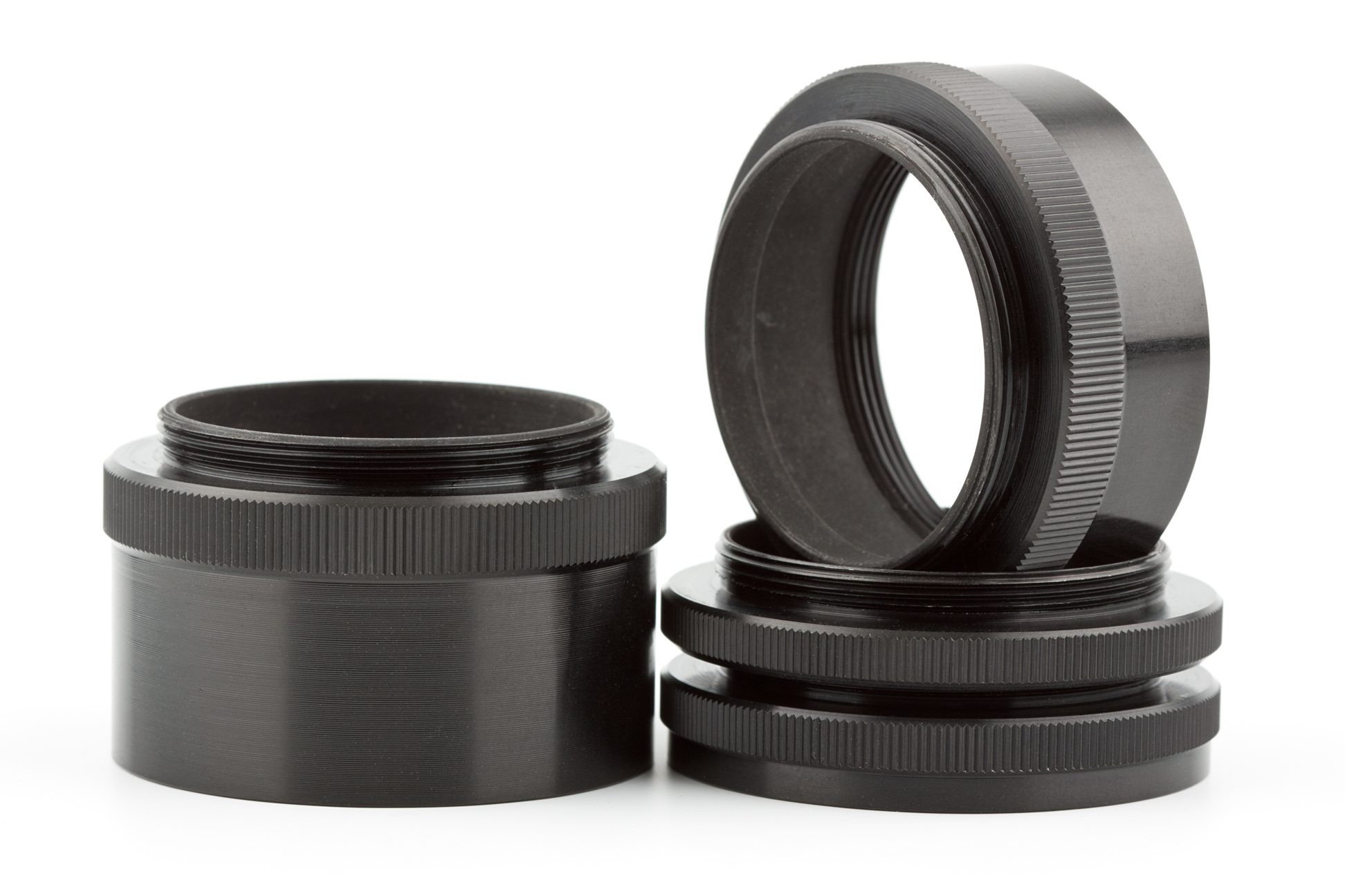 Set of 4 extension tubes with M39 mount